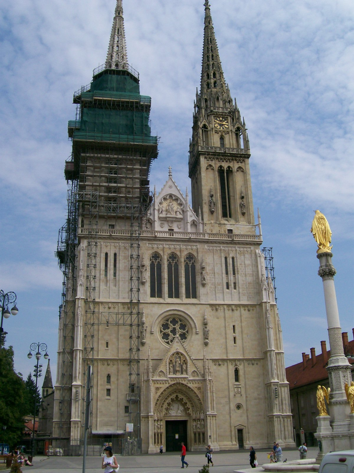 Zagreb Cathedral